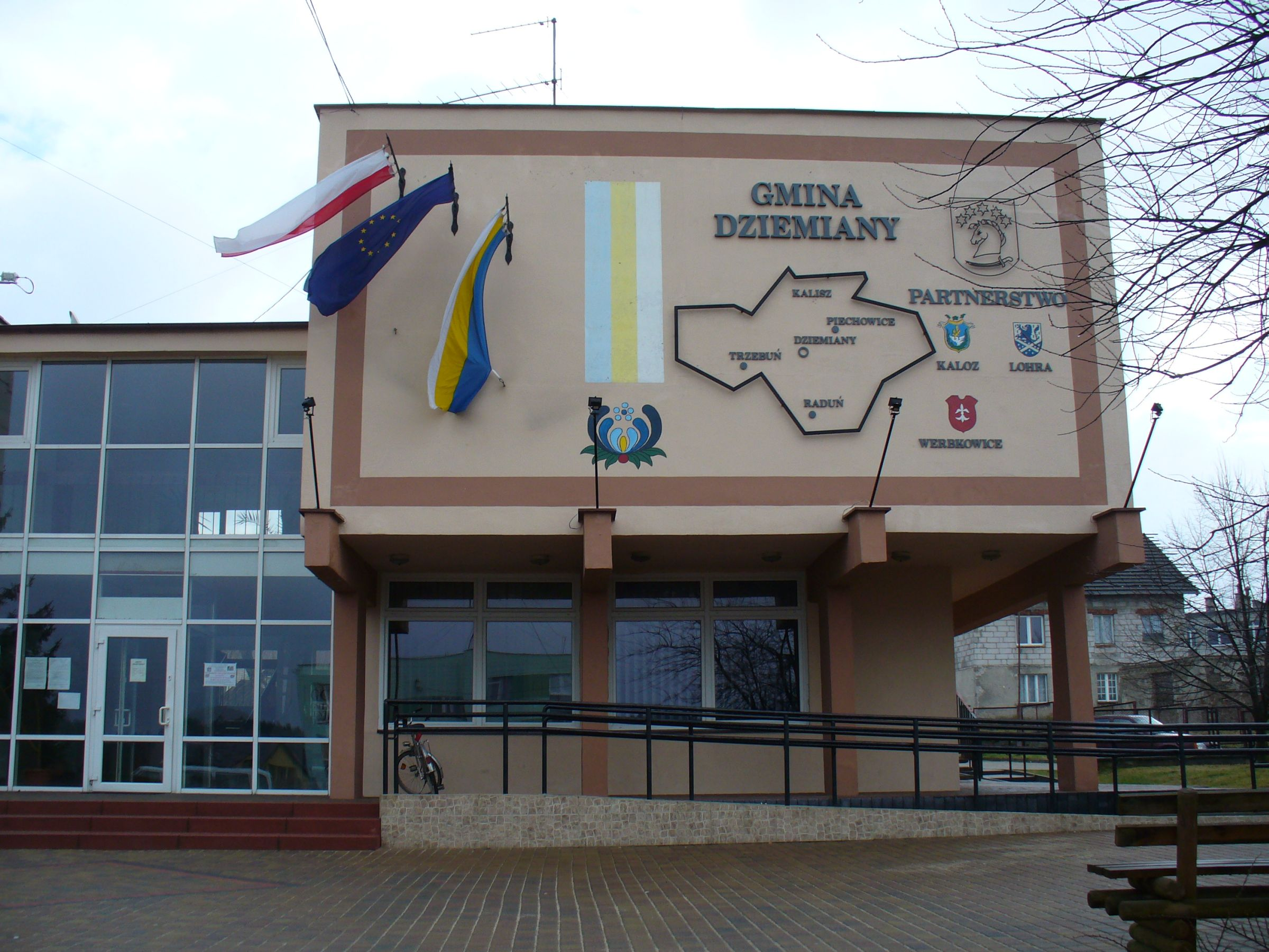 Village Dziemiany, Poland